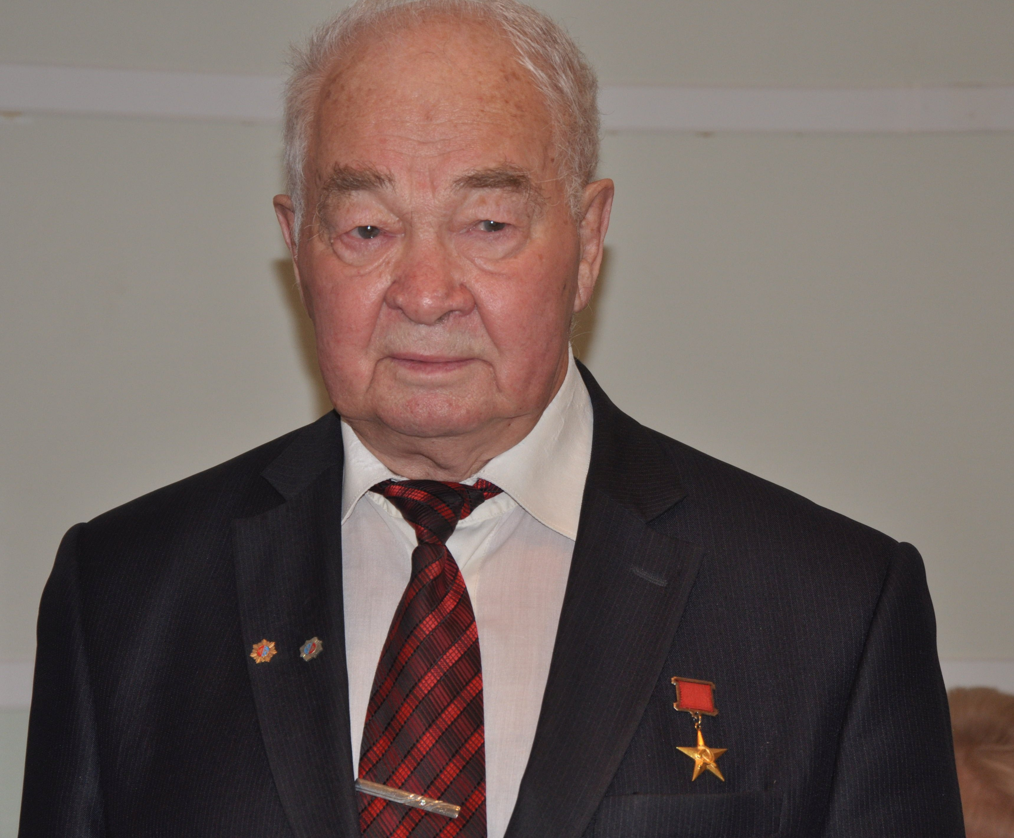 Gennady Viktorovich Sakovich (b. 1931), a Soviet and Russian chemical technologist.